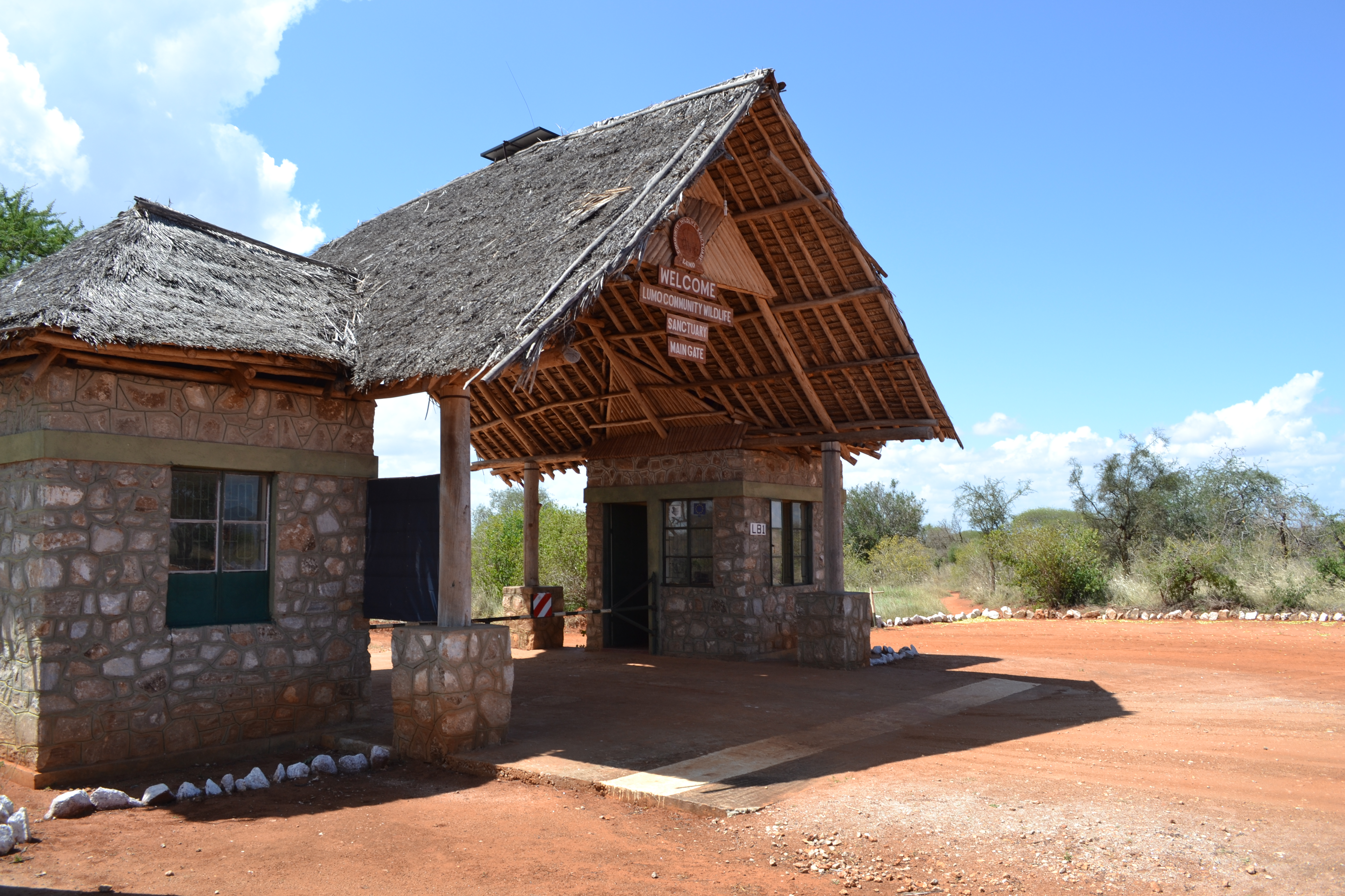 Main gate of the LUMO Community Wildlife Sanctuary, as viewed from the north, near the A23 road, in Kenya.